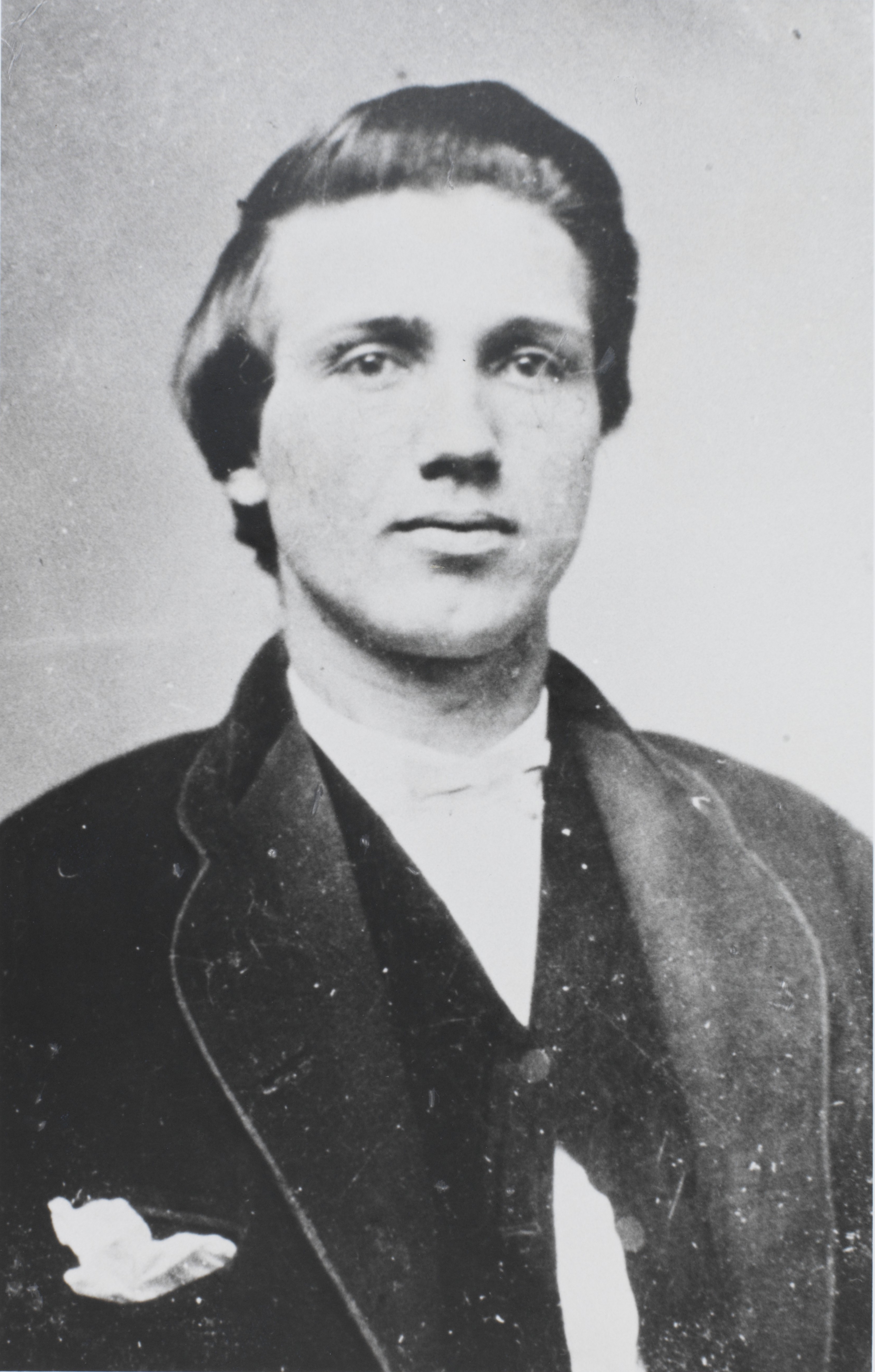 Photograph of Thomas H. Stack, S.J., president of Boston College